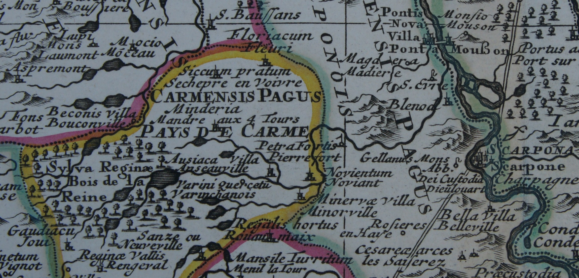 Civitas Leucorum sive Pagus Tullensis, today the Diocese of Toul, to serve as a history of this Diocese. By Guillaume de l'Isle. In Amsterdam, in J. Covens and C. Mortier.